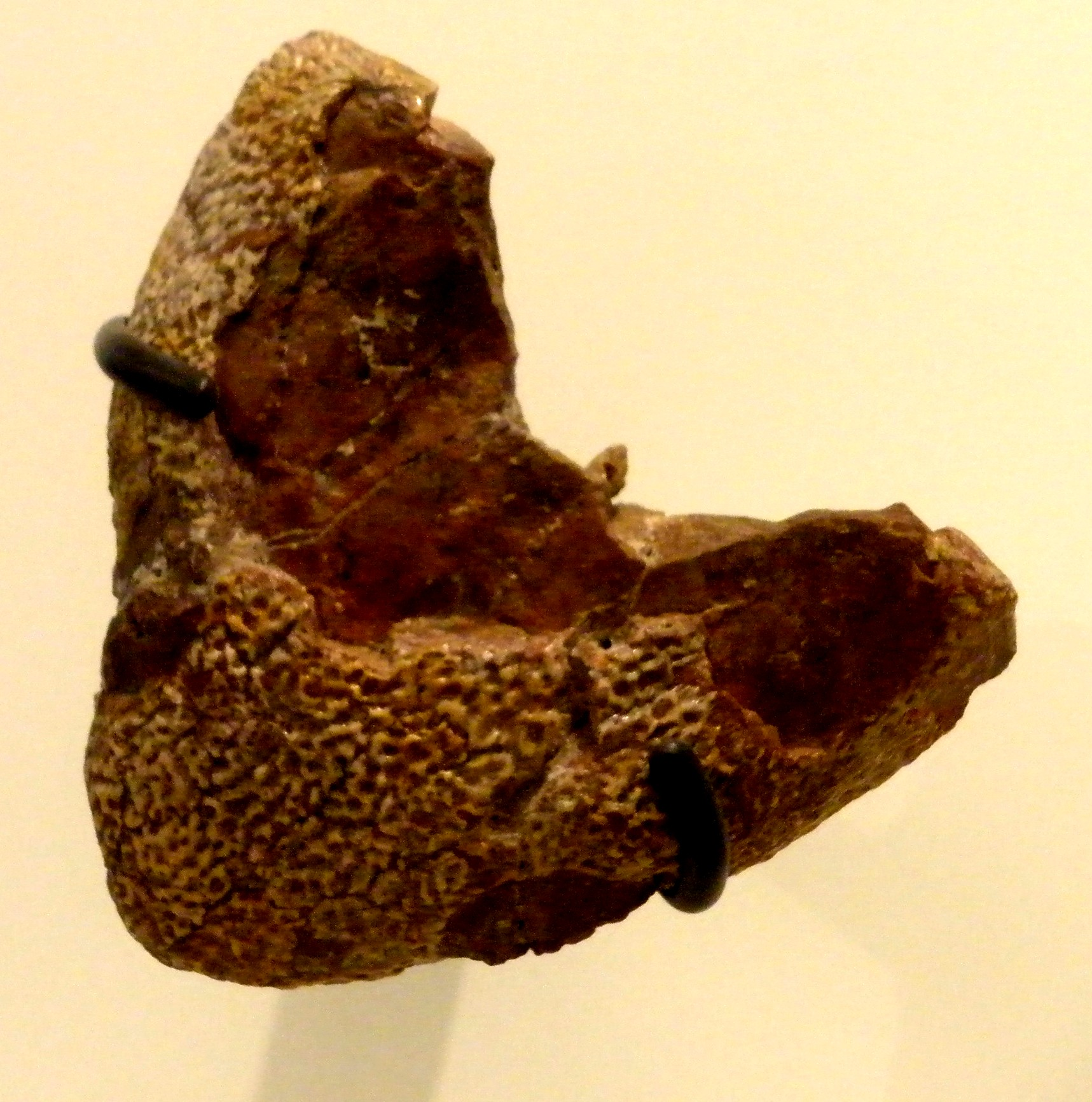 Fossil of Pantylus cordatus, a fossil amphibian DateApril 2008Sourcetook the foto on the "American Museum of Natural History" in New YorkAuthorGhedoghedoPermission (Reusing this file)